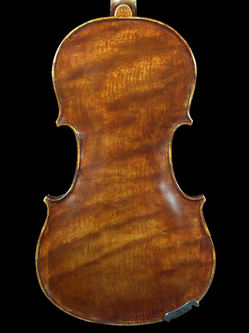 Rodolfo Fredi, 1944 (tapa)